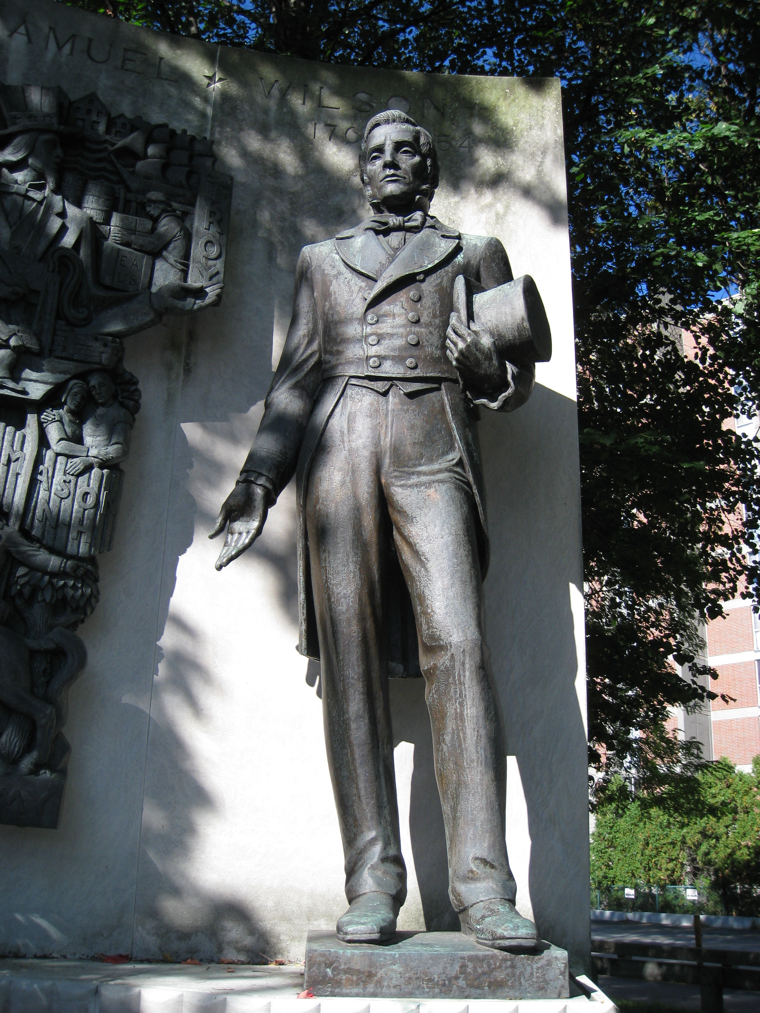 Photograph of the Uncle Sam Memorial Statue, Arlington, Massachusetts - Samuel Wilson portion. Sculptor: Theodore Cotillo Barbarossa (1906-1992).